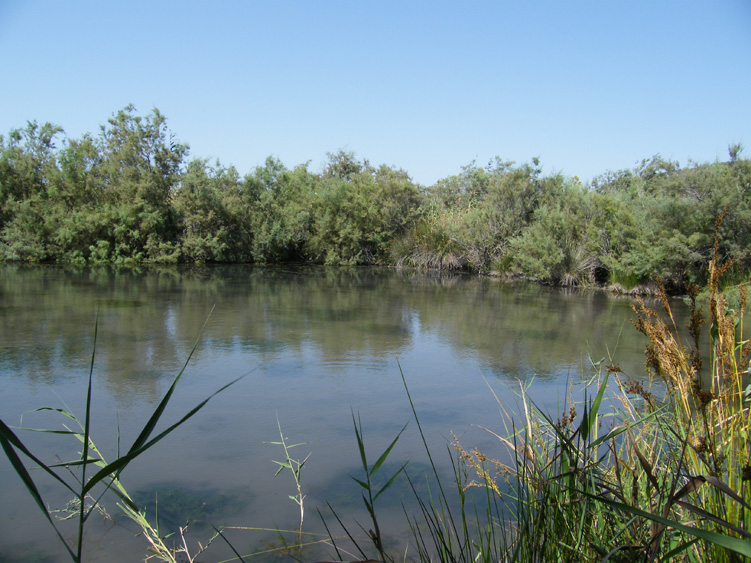 Timsach Pond (Brechat Tamsach) saltmarsh in Israel